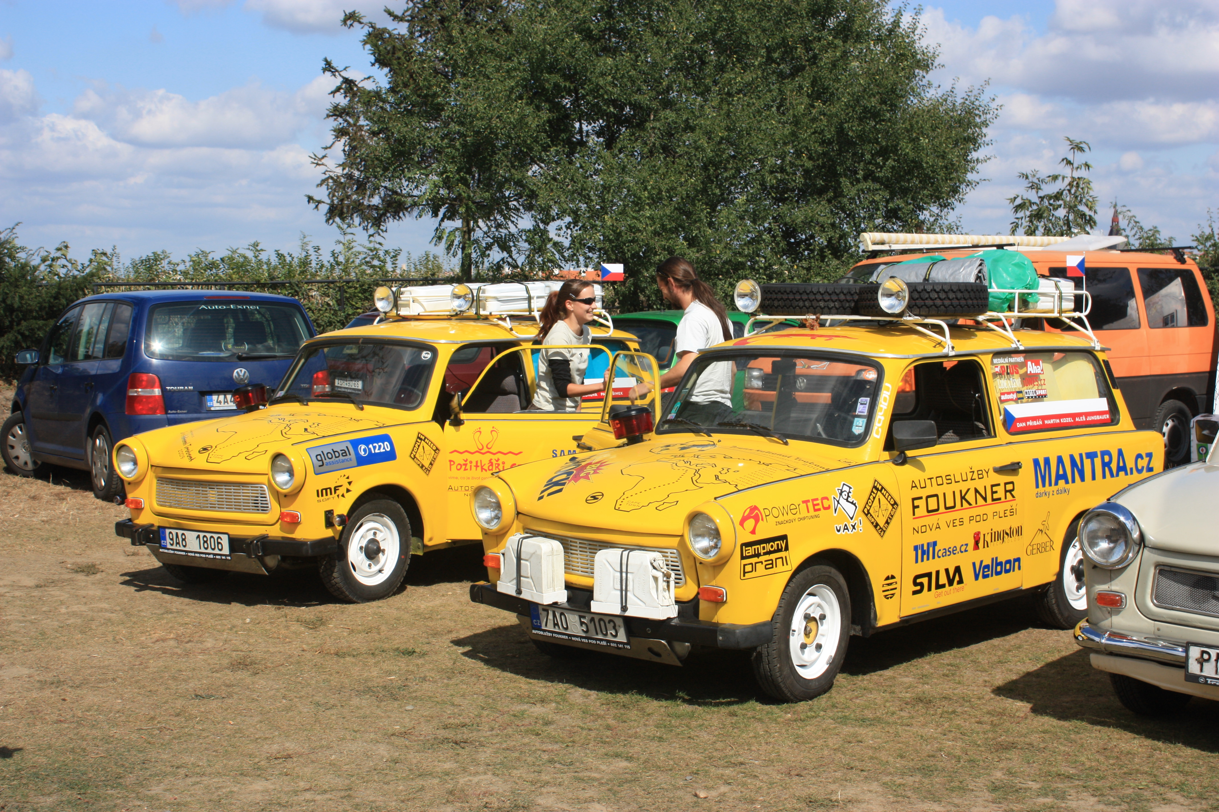 Departure of the Expedition Transtrabant 2009 (Prague - Cape Town) from Vyšehrad in Prague